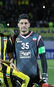 Shahab Gordan